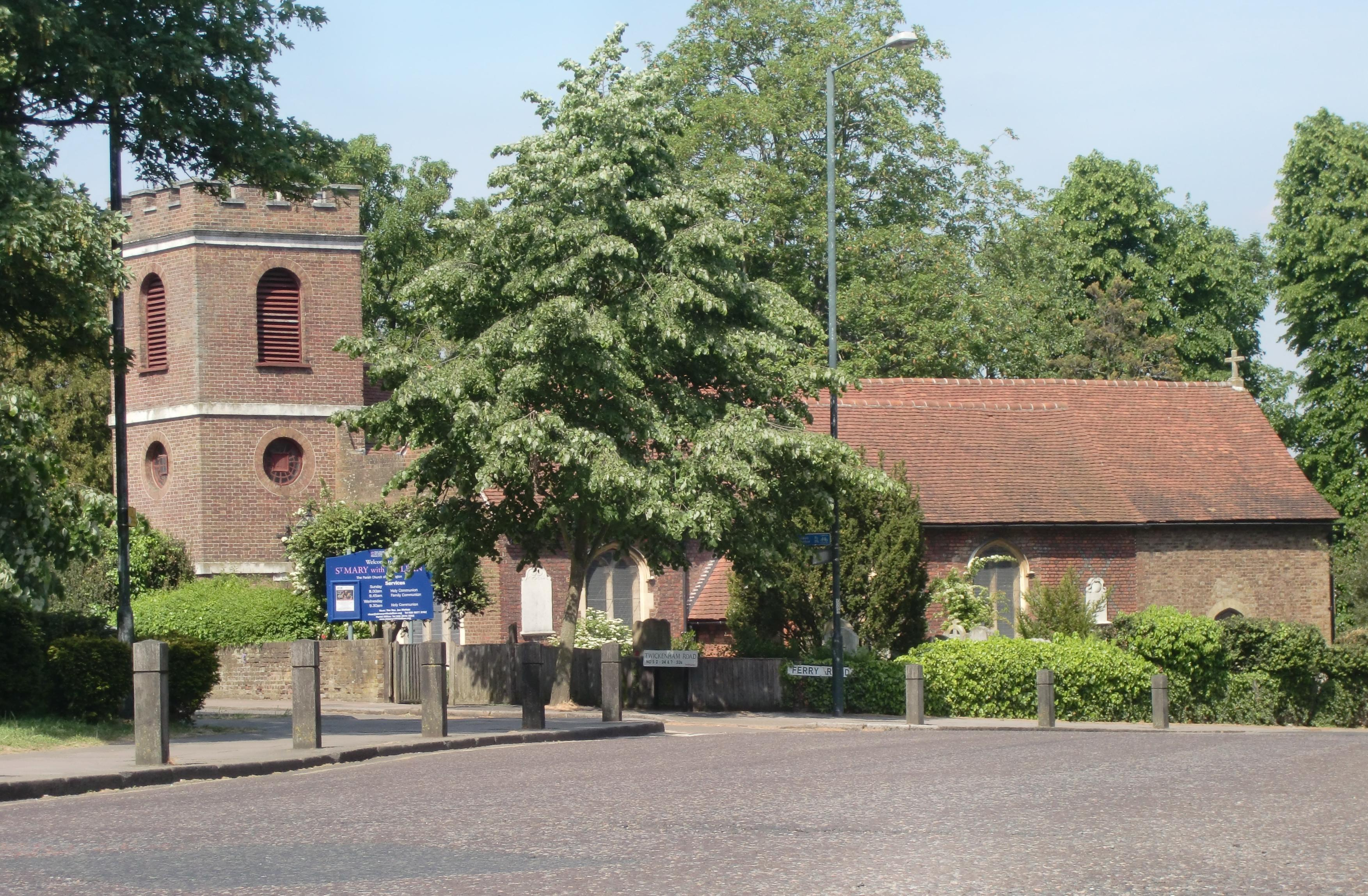 St Mary Teddington, the old parish church of Teddington, Middlesex Though the church is about a thousand years old the oldest bits now remaining are from the sixteenth century. Was abandoned for several decades when the parish moved into the larger Victorian church of St Alban over the road. But the parish has since returned to its historic church rededicating it as St Mary with St Alban and leaving the larger building to become the St Albans Art centre.